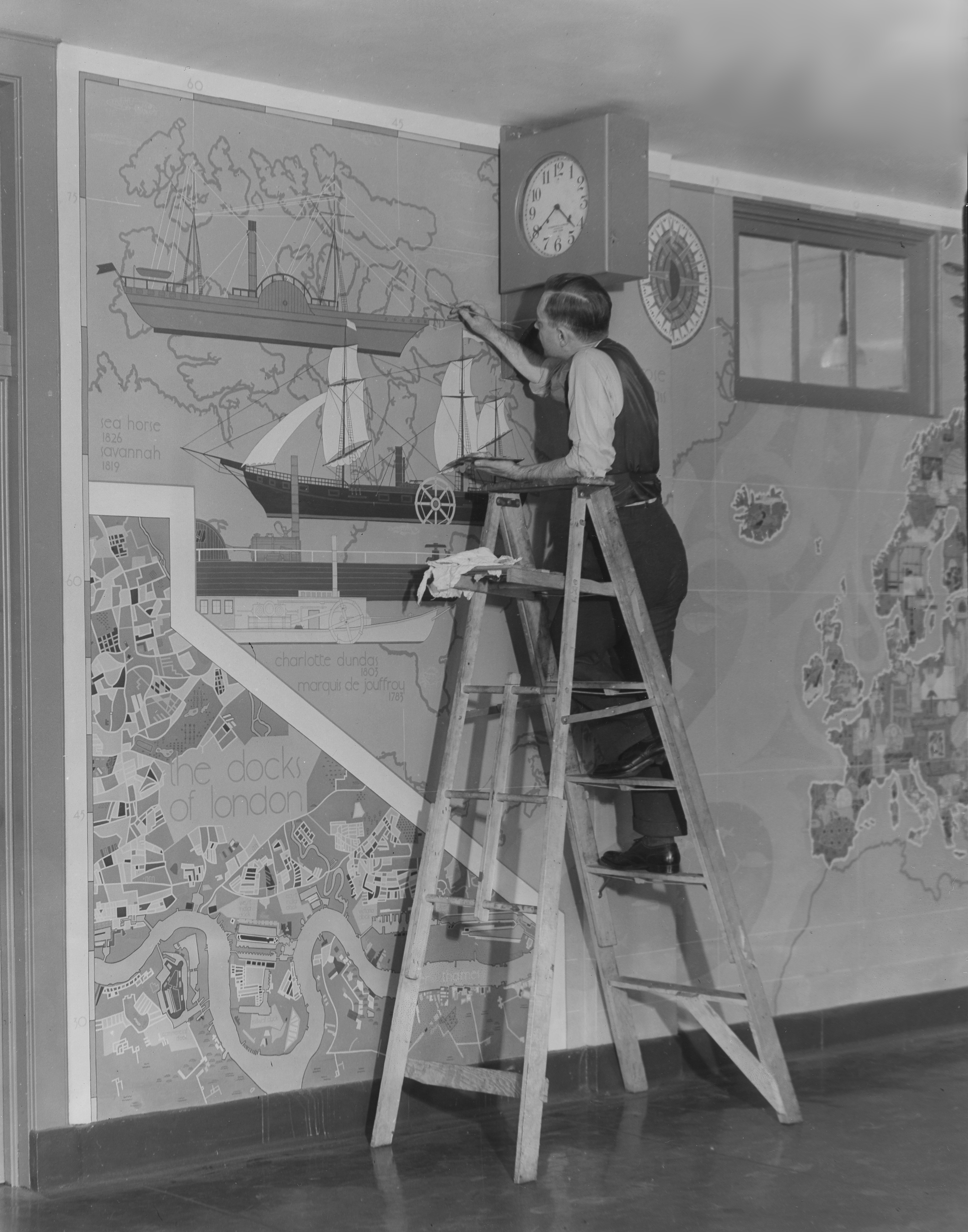 Knott at work on mural for the WPA. Identification on verso (handwritten): Photographs taken by outside photographerIdentification on accompanying label (typewritten): Benjamin Knotts at work on a mural at Julia Richman High School, 67 St. & 2nd Ave., N.Y.C. Location: 4th Floor Corridor, East School; Title of mural: Decorative Map of the World; Panel: Upper New York Bay; Artist: Benjamin Knotts and Guy Maccoy; Medium: Oil on canvas.